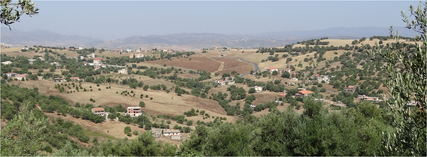 photo of Lemhella and other places